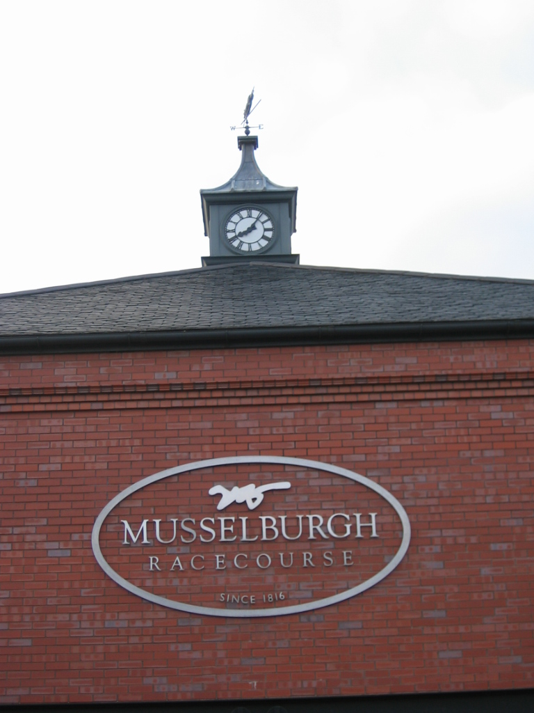 Musselburgh Racecourse, East Lothian, Scotland